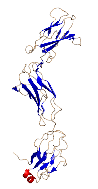 Crystal structure of gp130 as published in the Protein Data Bank (PDB: 1p9m)